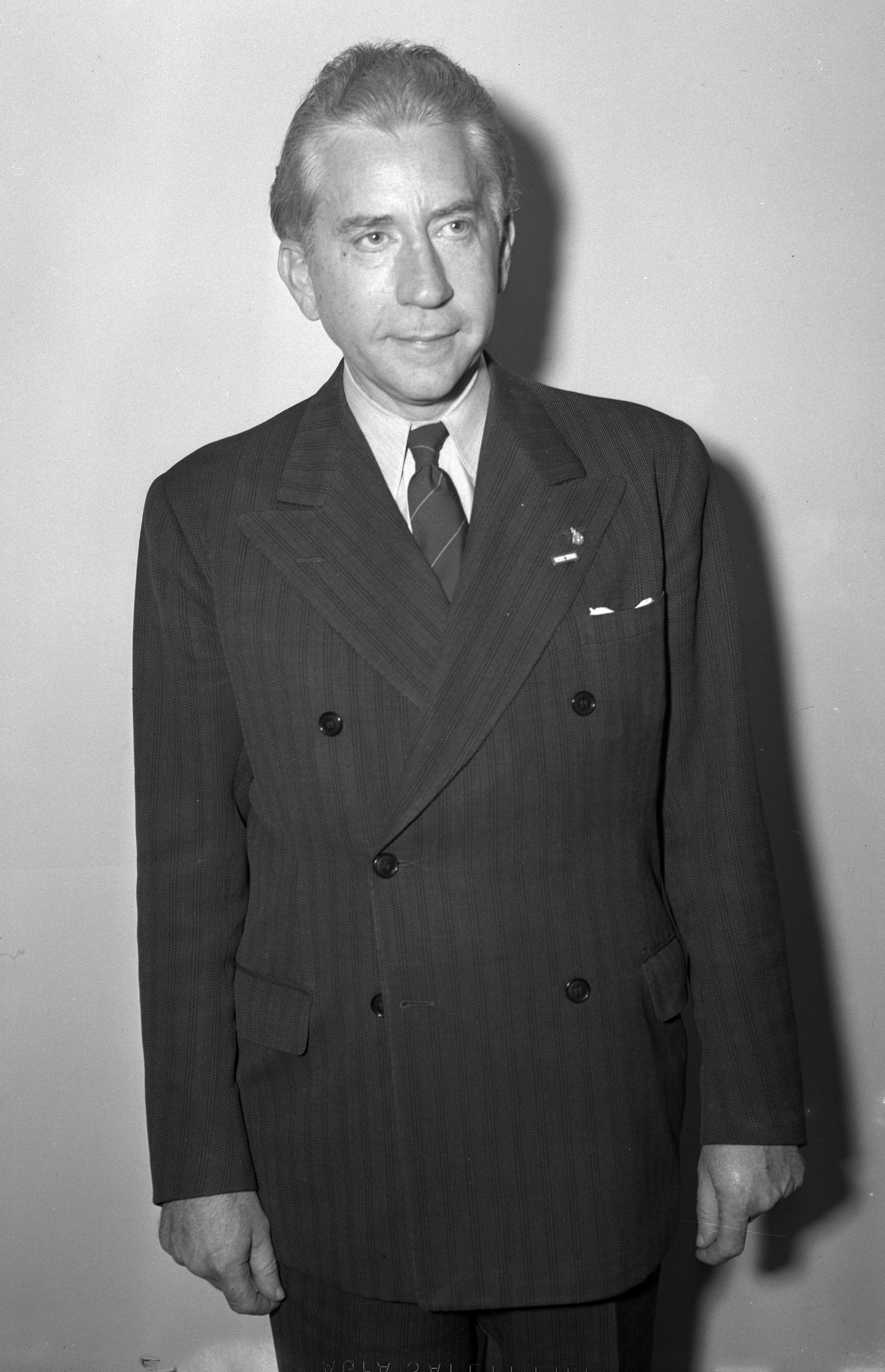 Title: J. Paul Getty, 3/4 length portrait, circa 1944 Publication:Los Angeles Daily News